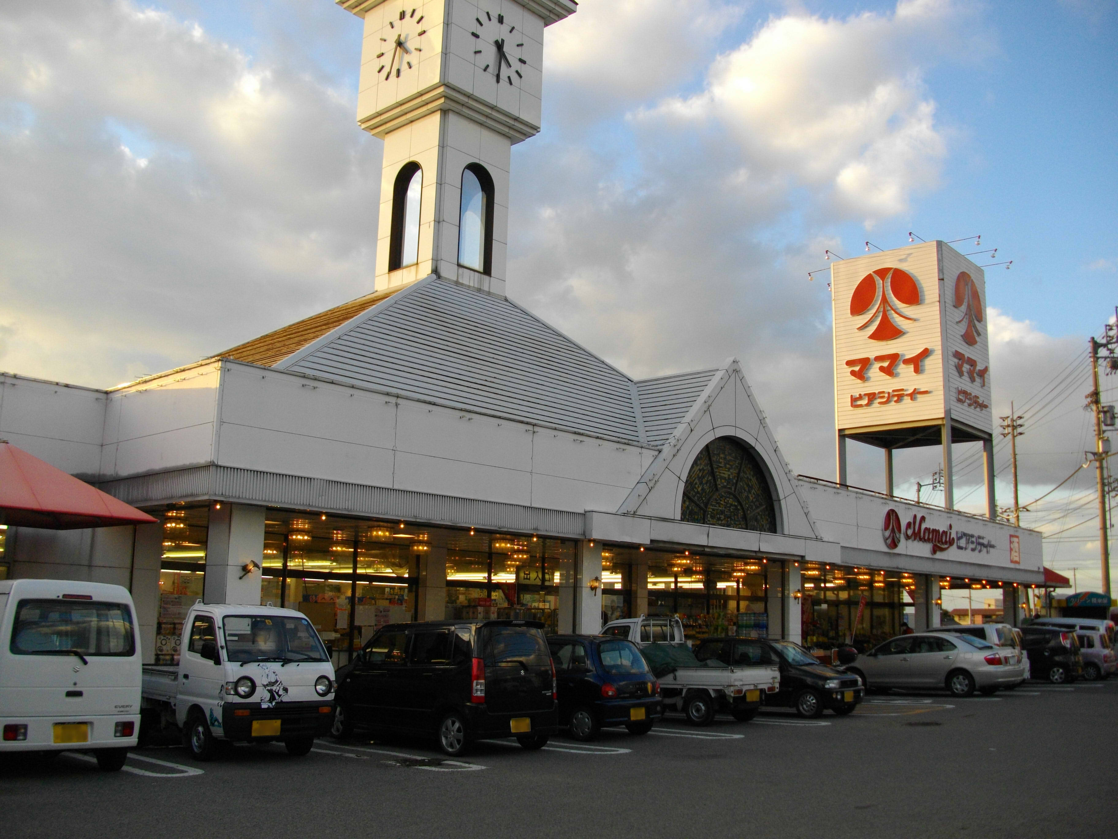 Mamai(Japanese supermarket) Piercity Doi(Shikoku-chuo city, Ehime Pref.)